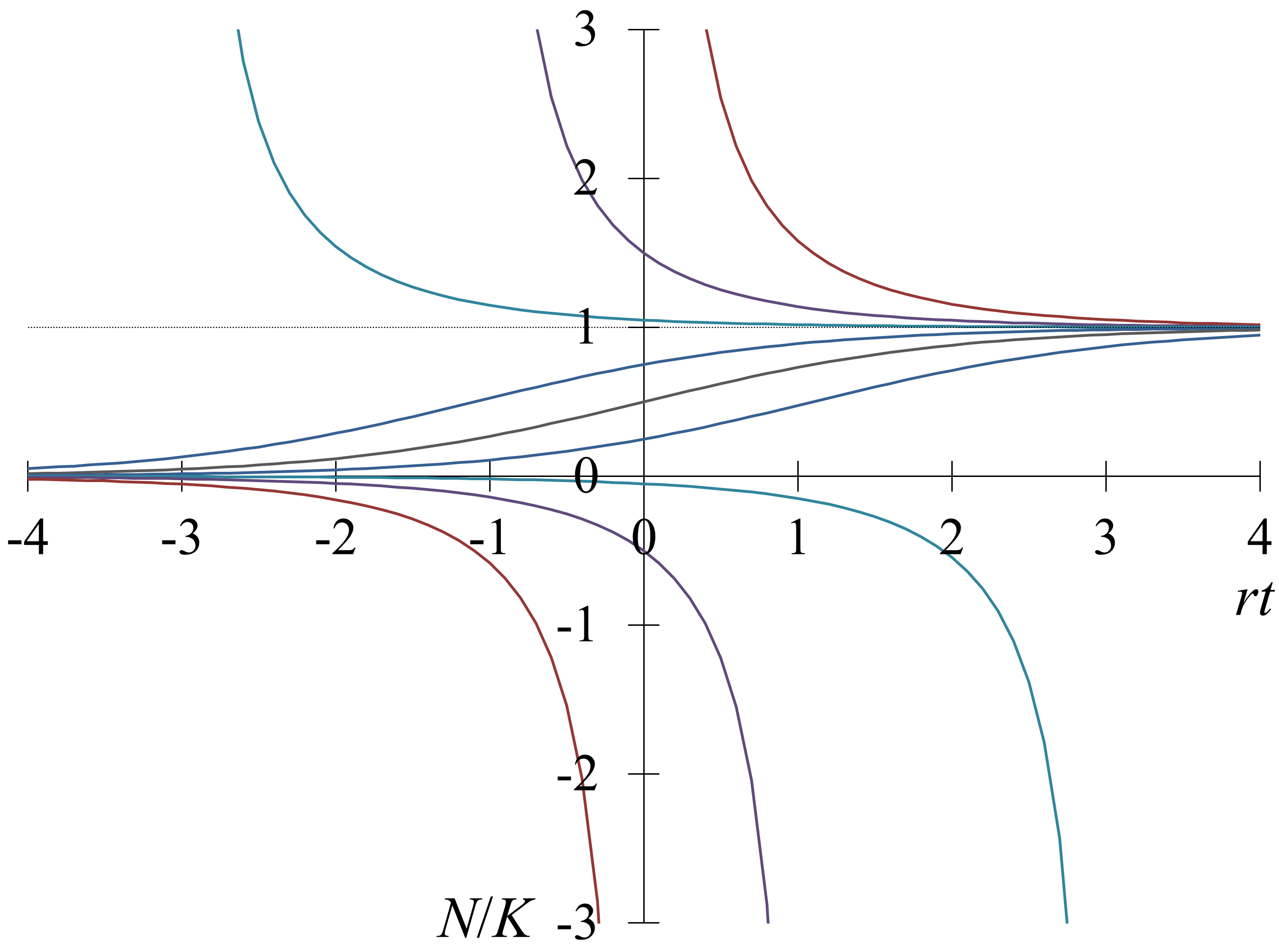 Overall view of logistic curve. The vertical axis is N/K, and the horizontal axis is rt. The curves were calculated from the equation N K = 1 1 + ( K / N 0 − 1 ) e − r t {\displaystyle {\frac {N}{K ={\frac {1}{1+(K/N_{0}-1)e^{-rt , where, N is population, t is time, r is intrinsic rate of natural increase, K is carrying capacity. N0 is the value of N when t = 0. The value of N0/K for each curve is 10000, 1.5, 1.05, 0.75, 0.5, 0.25, -0.05, -0.5, and -9999 in order from the top. Putting y = N/K and x = rt, above equation may be written in the form y = 1 1 + ( 1 / y 0 − 1 ) e − x {\displaystyle y={\frac {1}{1+(1/y_{0}-1)e^{-x , where, y0 is the value of y when x = 0. If y0 = 0.5, y = 1 1 + e − x {\displaystyle y={\frac {1}{1+e^{-x . This is called also (standard) sigmoidal curve.